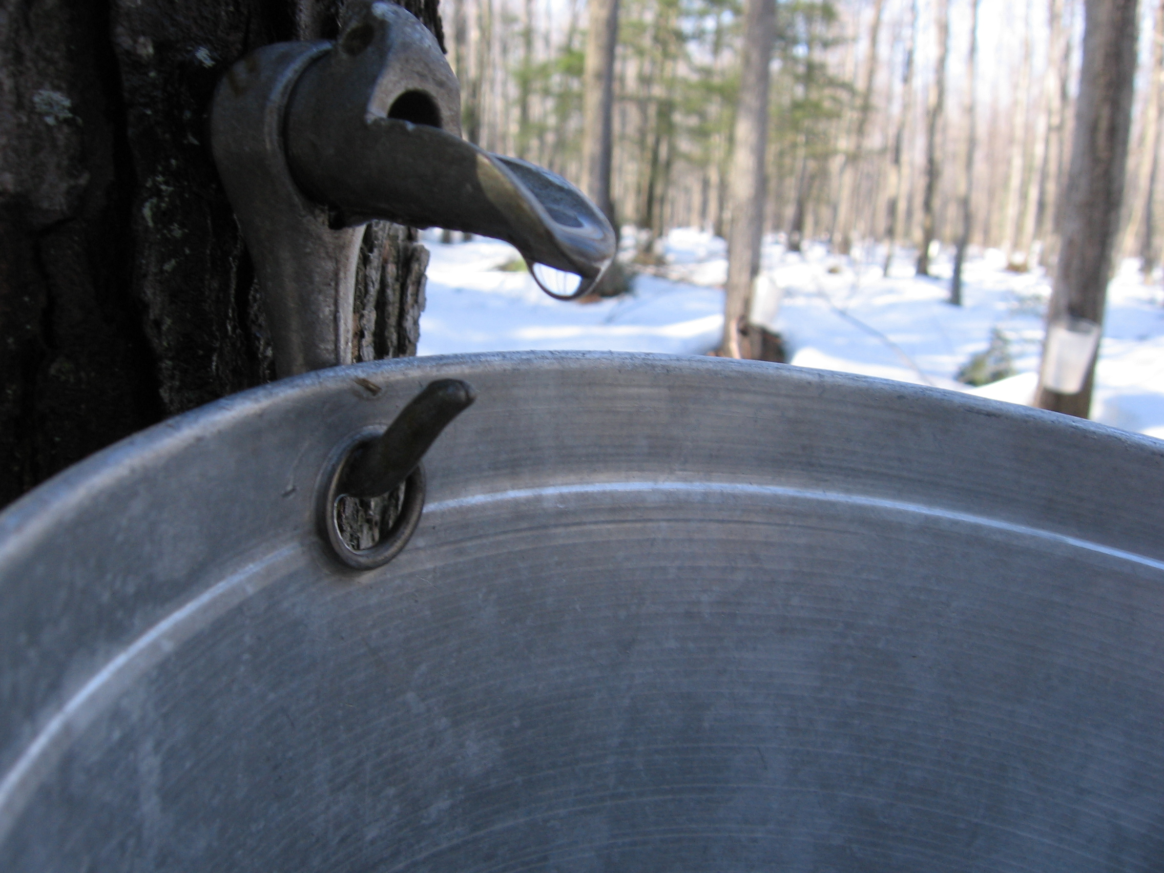 xylem sap of sugar maple